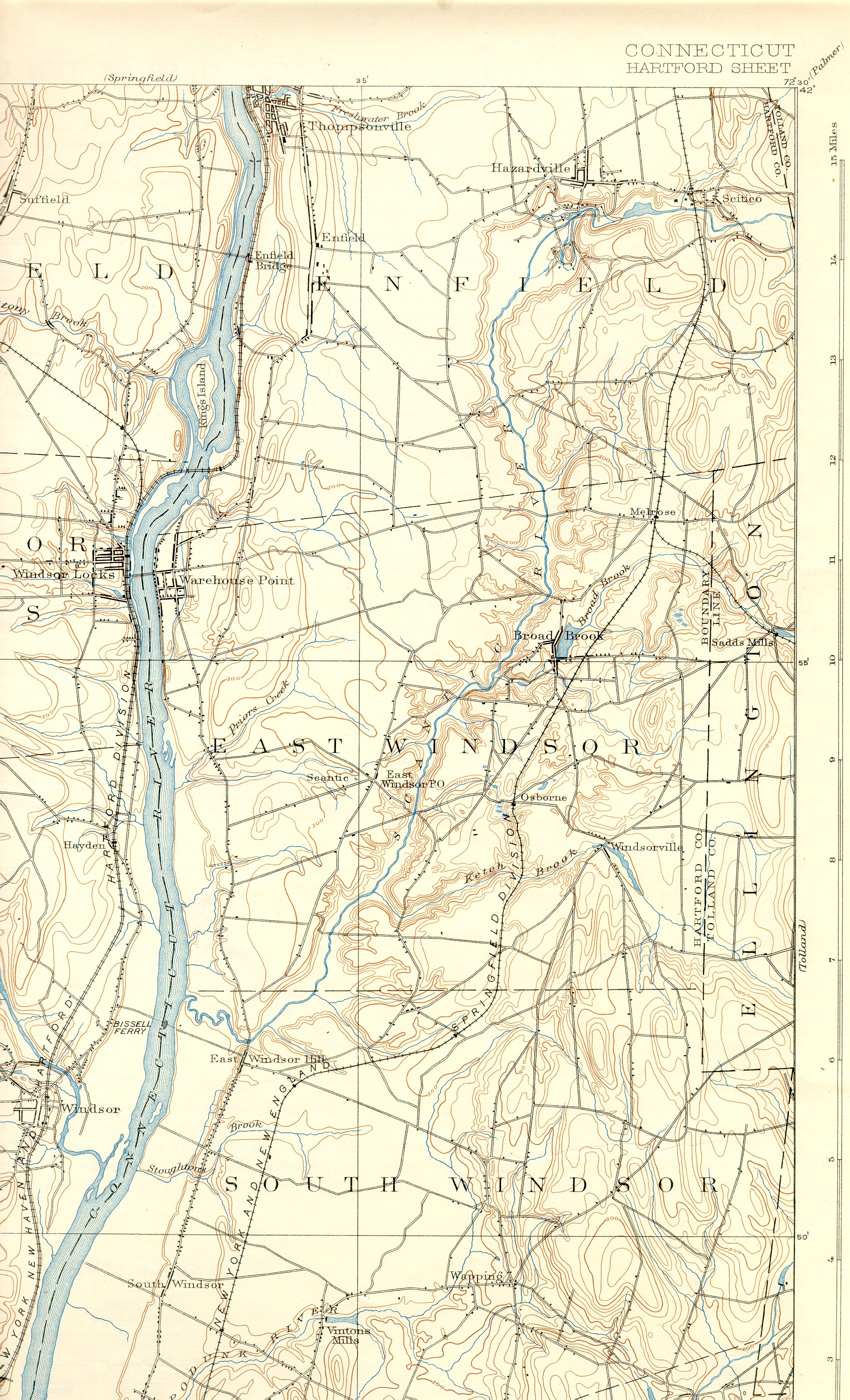 Map of bottom stretch of Scantic River (Connecticut) and environs.